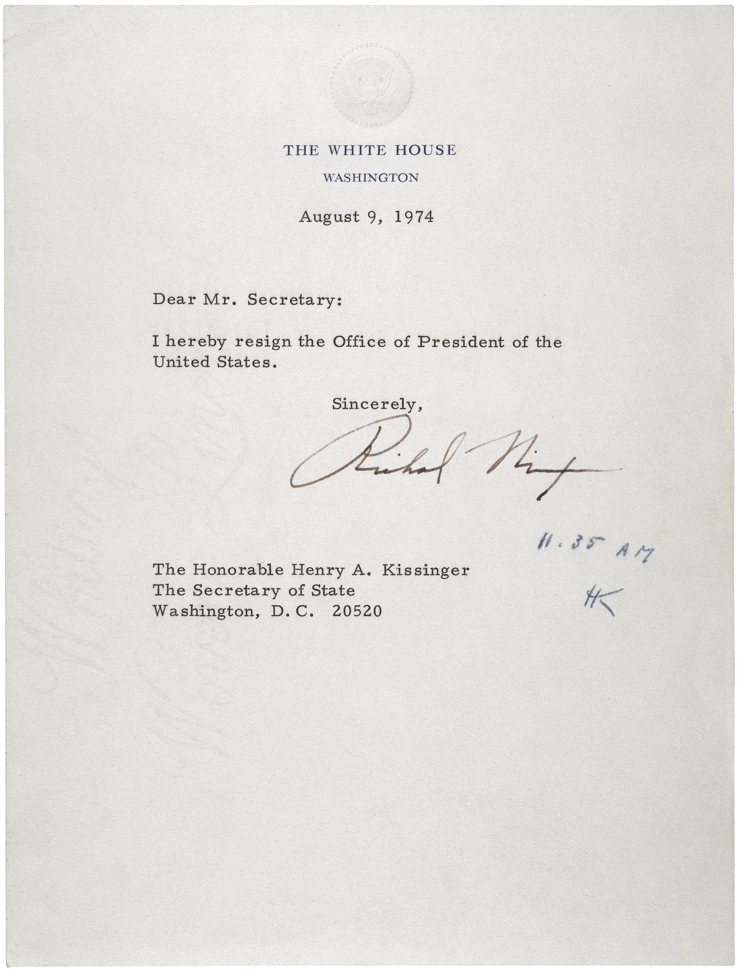 President of the United States Richard M. Nixon's Resignation Letter, 08/09/1974 (August 9th 1974) (ARC Identifier: 302035).